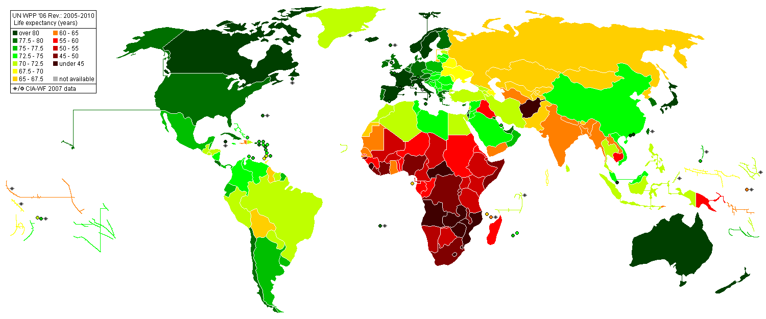 Life Expectancy at birth (years) over 80 77.5-80 75-77.5 72.5-75 70-72.5 67.5-70 65-67.5 60-65 55-60 50-55 45-50 under 45 not available Life expectancy at birth (years) world map including: 1) All 192 United Nations member states. 2) 26 dependent territories. 3) Republic of China - Taiwan. 4) Hong-Kong and Macau - Special Administrative Regions of the People's Republic of China. 5) Occupied Palestinian Territories. 6) Western Sahara territory.